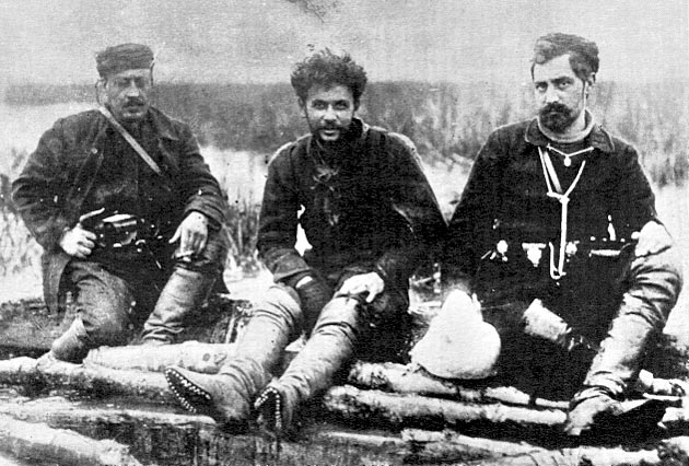 Greek andart captains Sarantos Agapinos (Captain Telos Agras), Ioannis Demestihas (captain Nikiforos) and Konstantinos Sarros (captain Kalas)